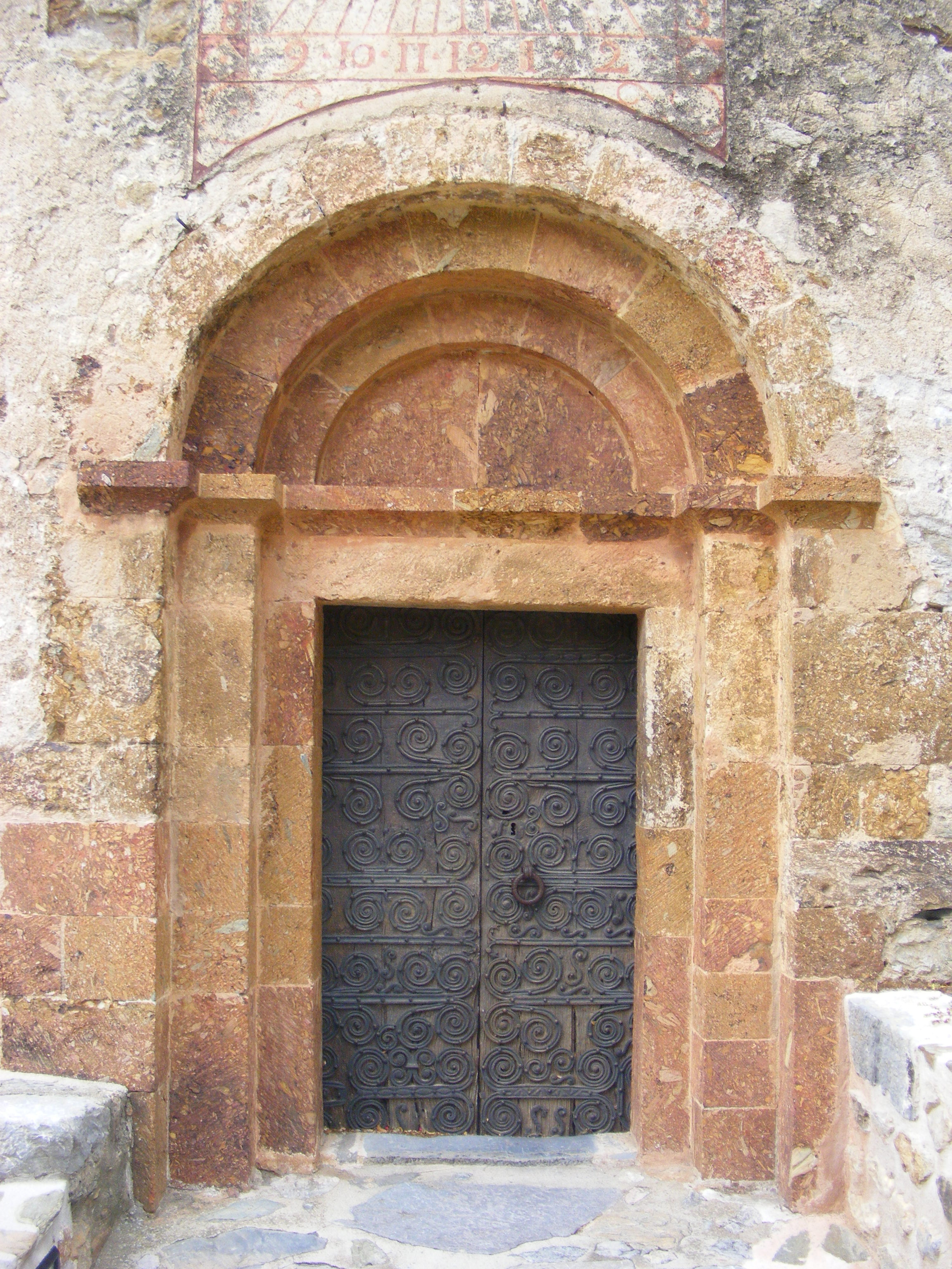 Door of the church of Santa Maria del Mercadal (Castellnou dels aspres)